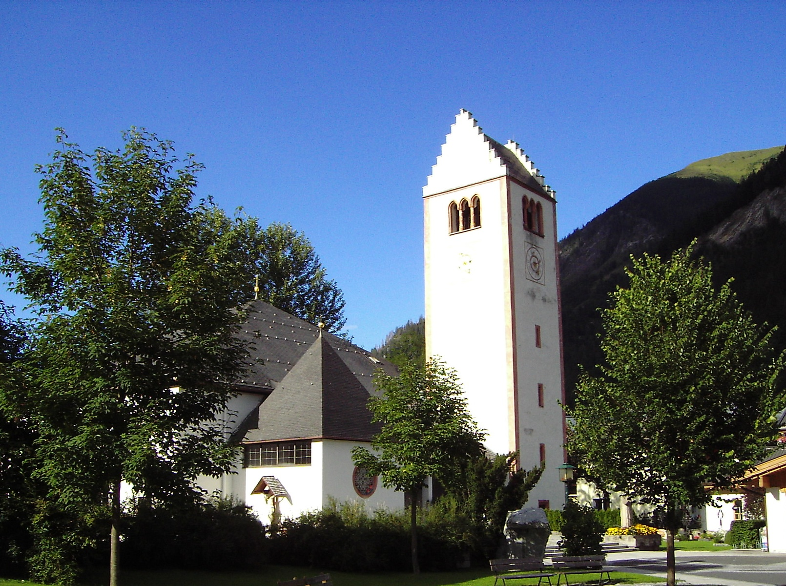 Church Of The Municipality Fusch On Highway Großglockner-Hochalpenstraße, Salzburger Land - Austria